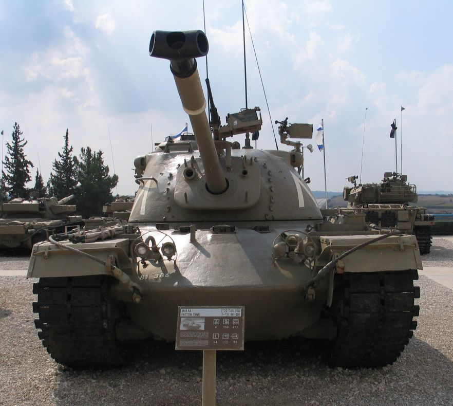 M48A3 Patton tank in Yad la-Shiryon Museum, Israel.